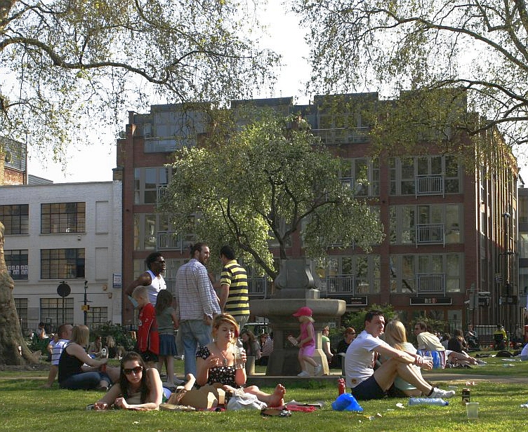 People enjoying the summer weather in Hoxton Square.